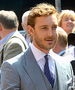 Many guests had been coming on July 8, 2017 into the Marktkirche, Hanover to the wedding of Ekaterina Malysheva and Ernst August Prinz von Hannover ...